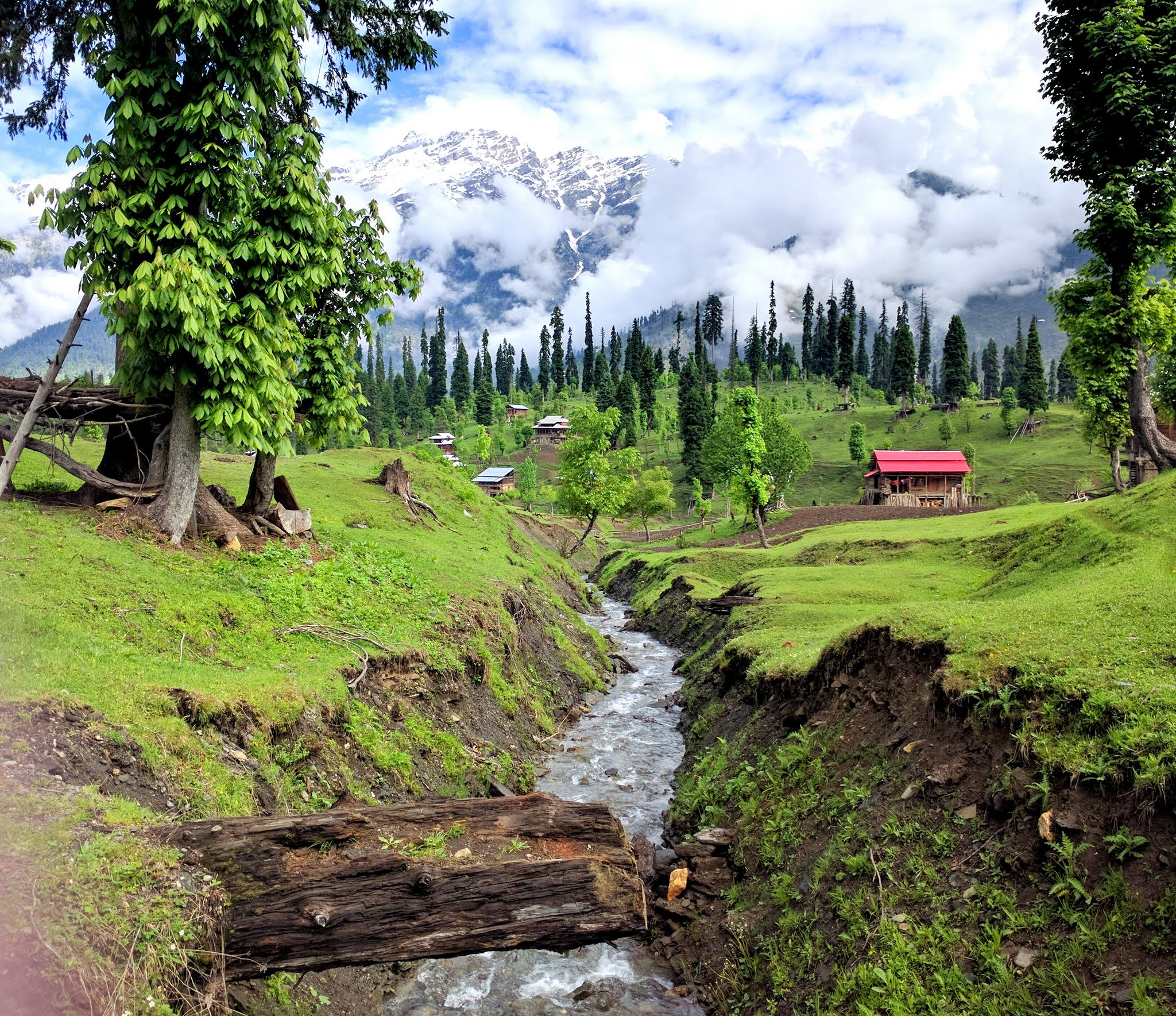 A small river flowing through the beautiful Arangkel, Neelum Valley, Azad Kashmir